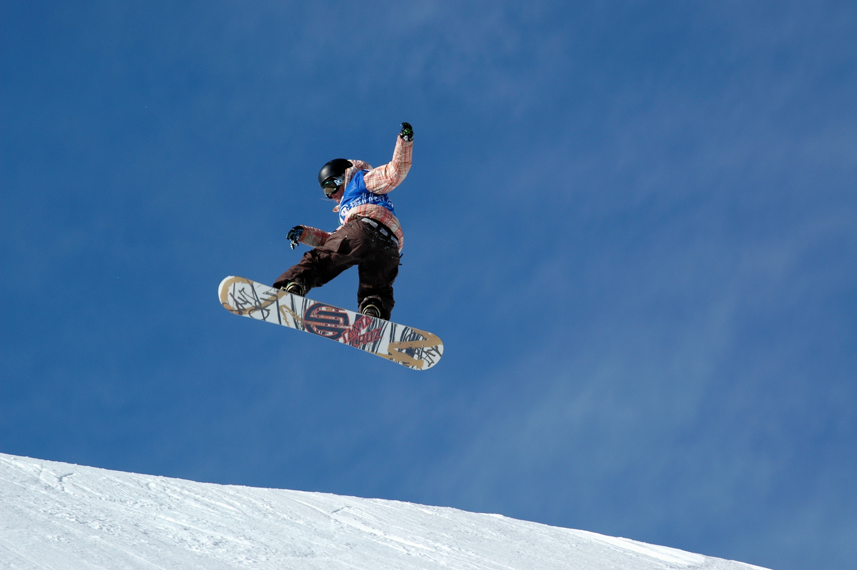 Snowboard, Silvia Mittermüller at the Burton European Open 2007